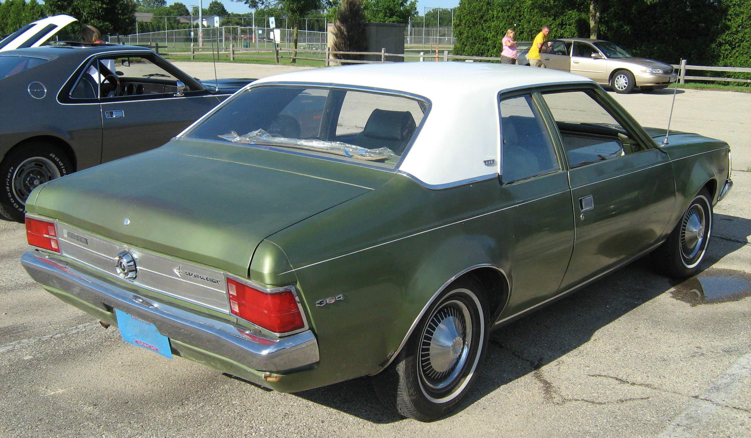 Rear view of 1970 AMC Hornet SST made by American Motors Corporation. This two-door sedan is finished in two-tone: green with white accented roof. Equipped with AMC's 304 CID (5.0 L) V8 engine. Photographed in Kenosha, Wisconsin.